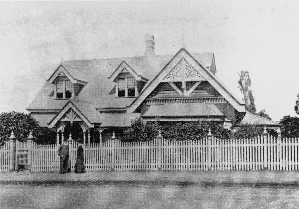 Residence of Mr E. B. Southerden in Sandgate, Brisbane, 1901 A large ornamented gable, with intricate fretwork, is on the right. A pediment above the front entry leads to the verandah.